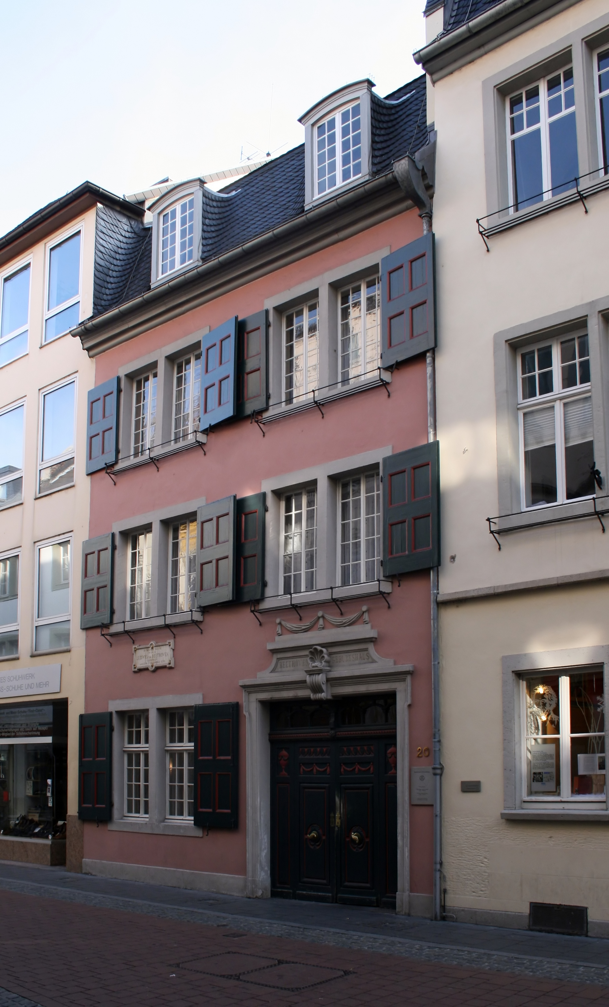 House of birth Ludwig van Beethoven, Bonn/Germany, Bonngasse